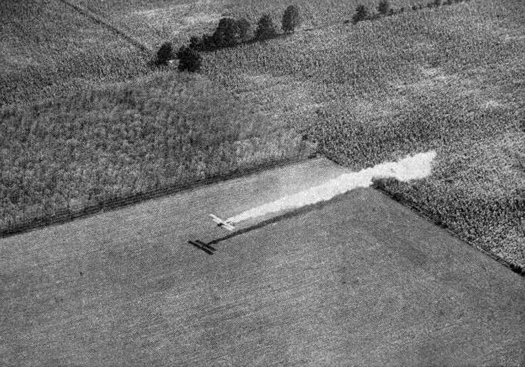 World first crop dusting experiment (August 3rd 1921, Troy, Ohio) using an aircraft - The airplane (Curtiss JN-6) was piloted by Lieut. J.A. Macready ; The hopper was designed and operated during the flight by McCook field engineer Etienne Dormoy.